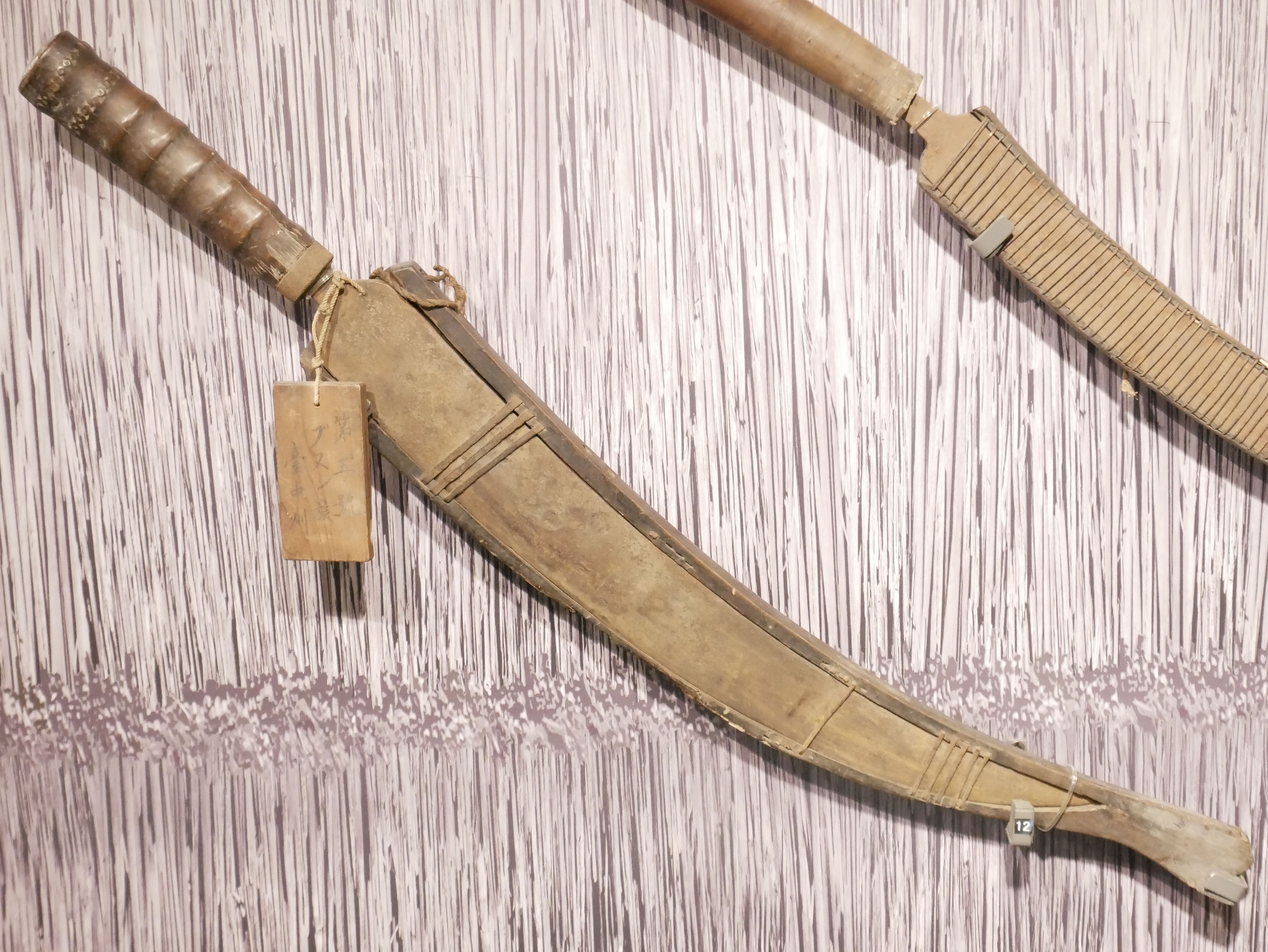 布農族卡特克蘭社（臺中州新高郡蕃地カトグラン社）佩刀，臺北市中正區城內次分區黎明里